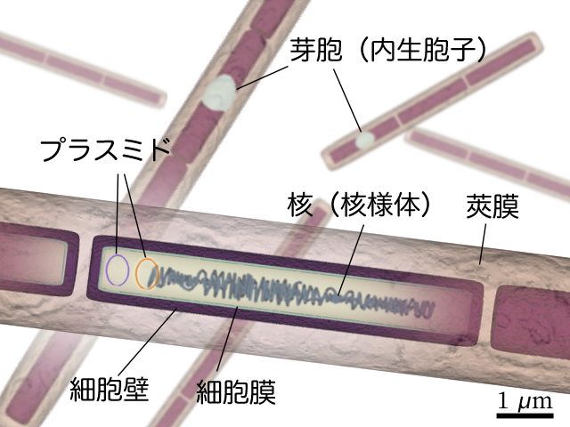 Structure of Bacillus anthracis with Japanese annotation